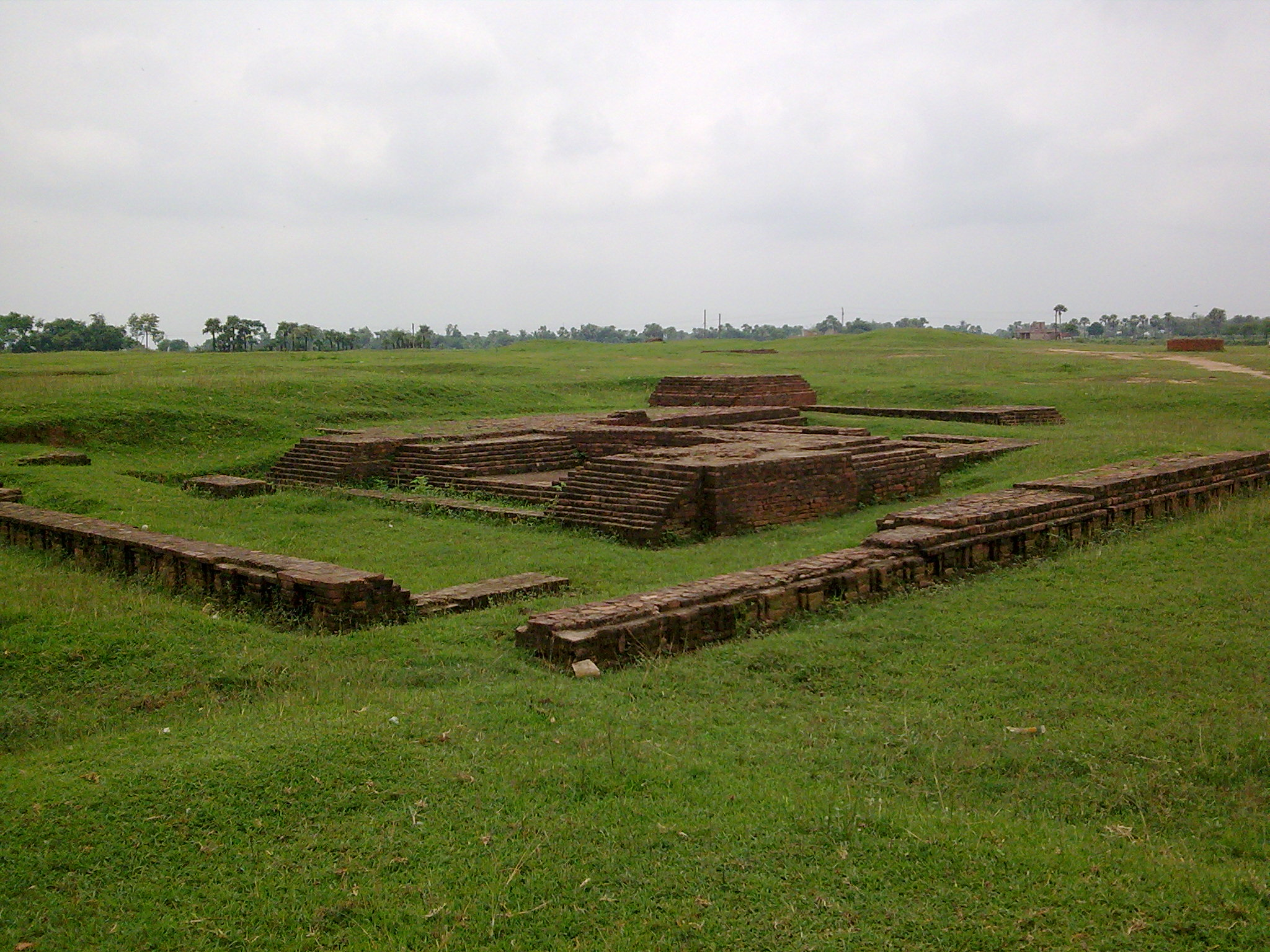 this is the remains of ancient capital of karnasubarna once ruled by king sasanka,this used to the very great rakta mrittika mahavihar as described by hiuen tsang.